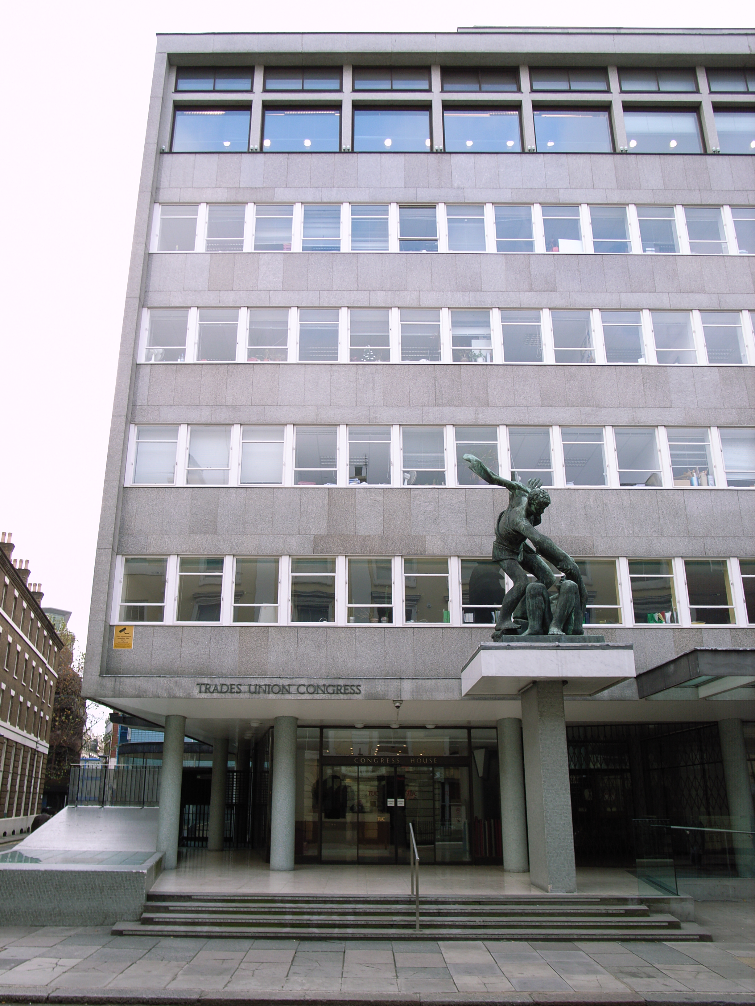 Congress House (TUC HQ) (1953-7) by David du R. Aberdeen, London. The statue is "The Spirit of Brotherhood" by Bernard Meadows.